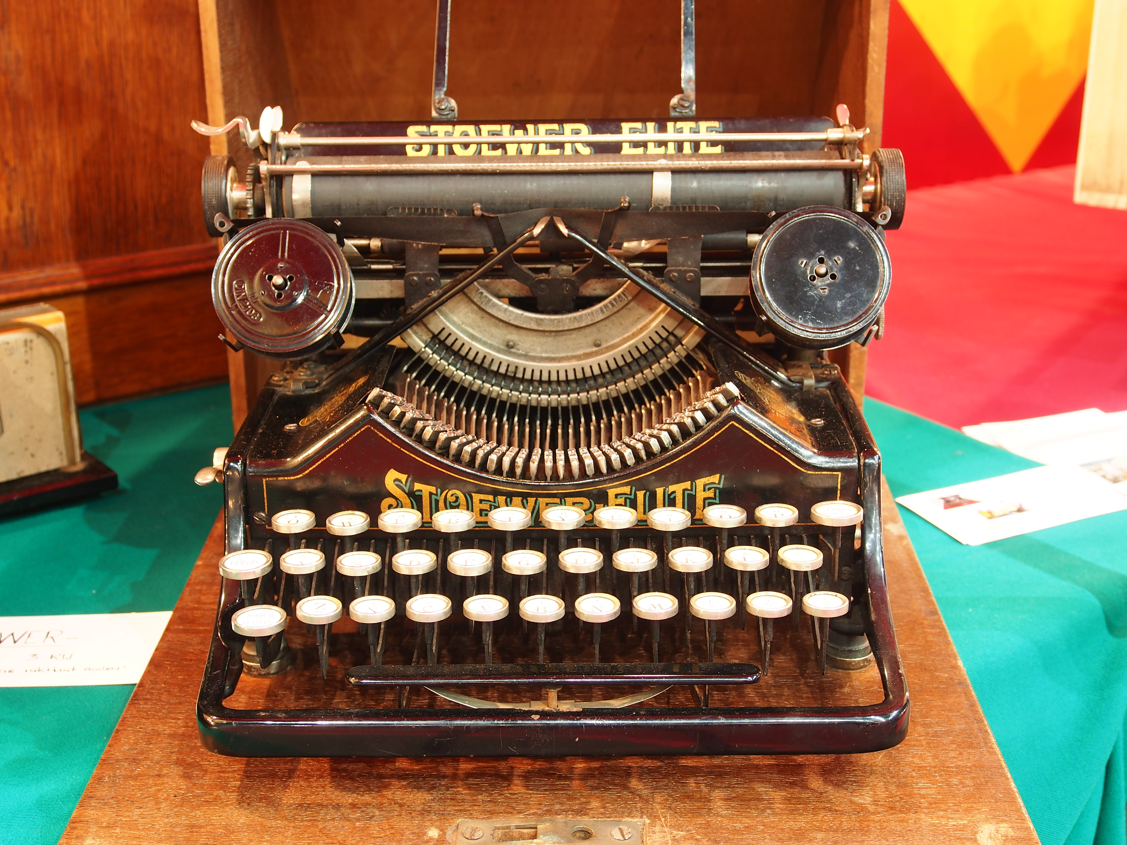 Typewriter of a private collection of Rienk Monsma.